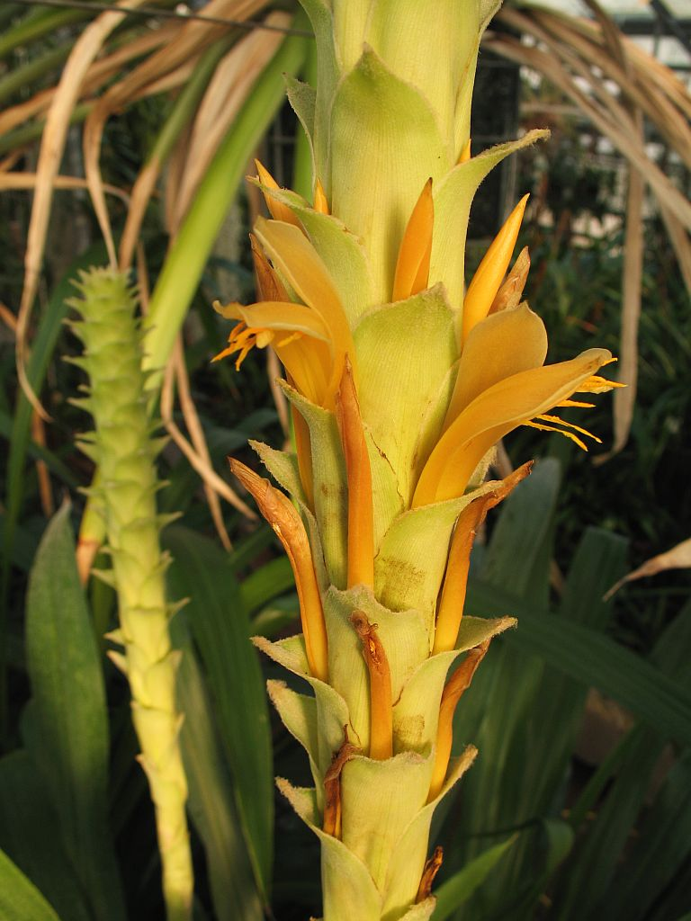 Pitcairnia sceptrigera in cultivation at the Botanical Garden of Heidelberg, Germany.